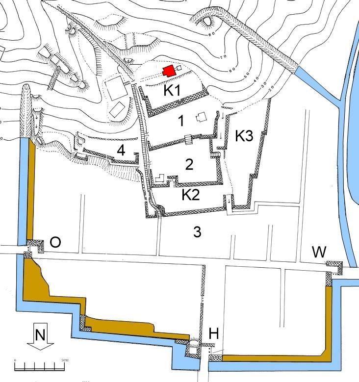 Layout of Izushi Castle, Japan